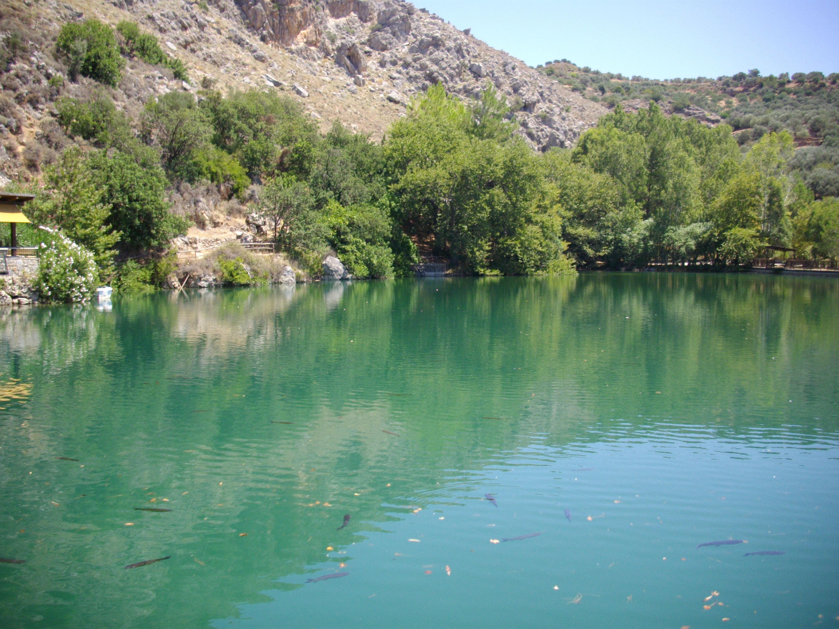 Lake Zaros